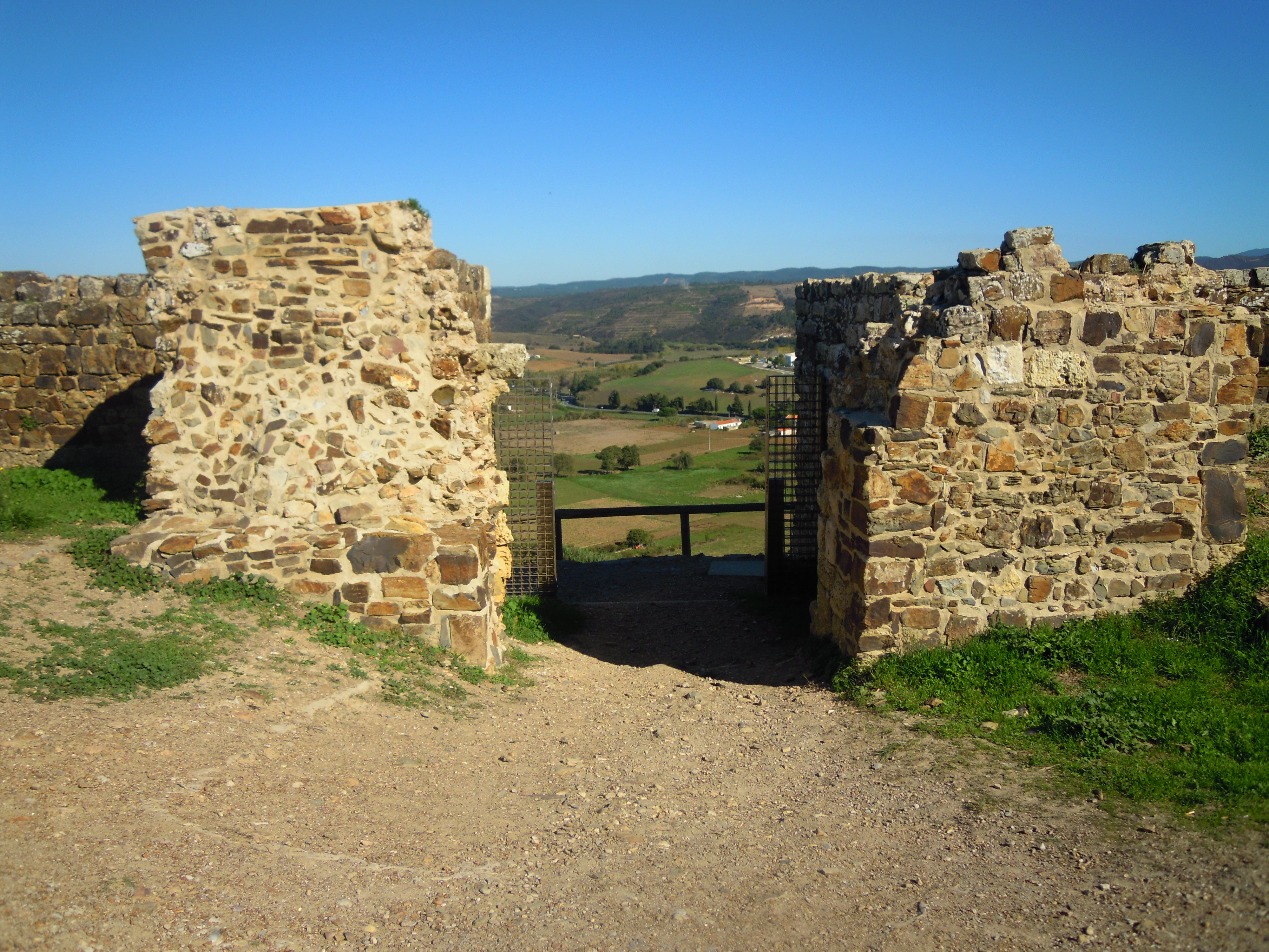 Photograph of the main gate into the Castle at Aljezur , in the municipality of Aljezur, Algarve, Portugal